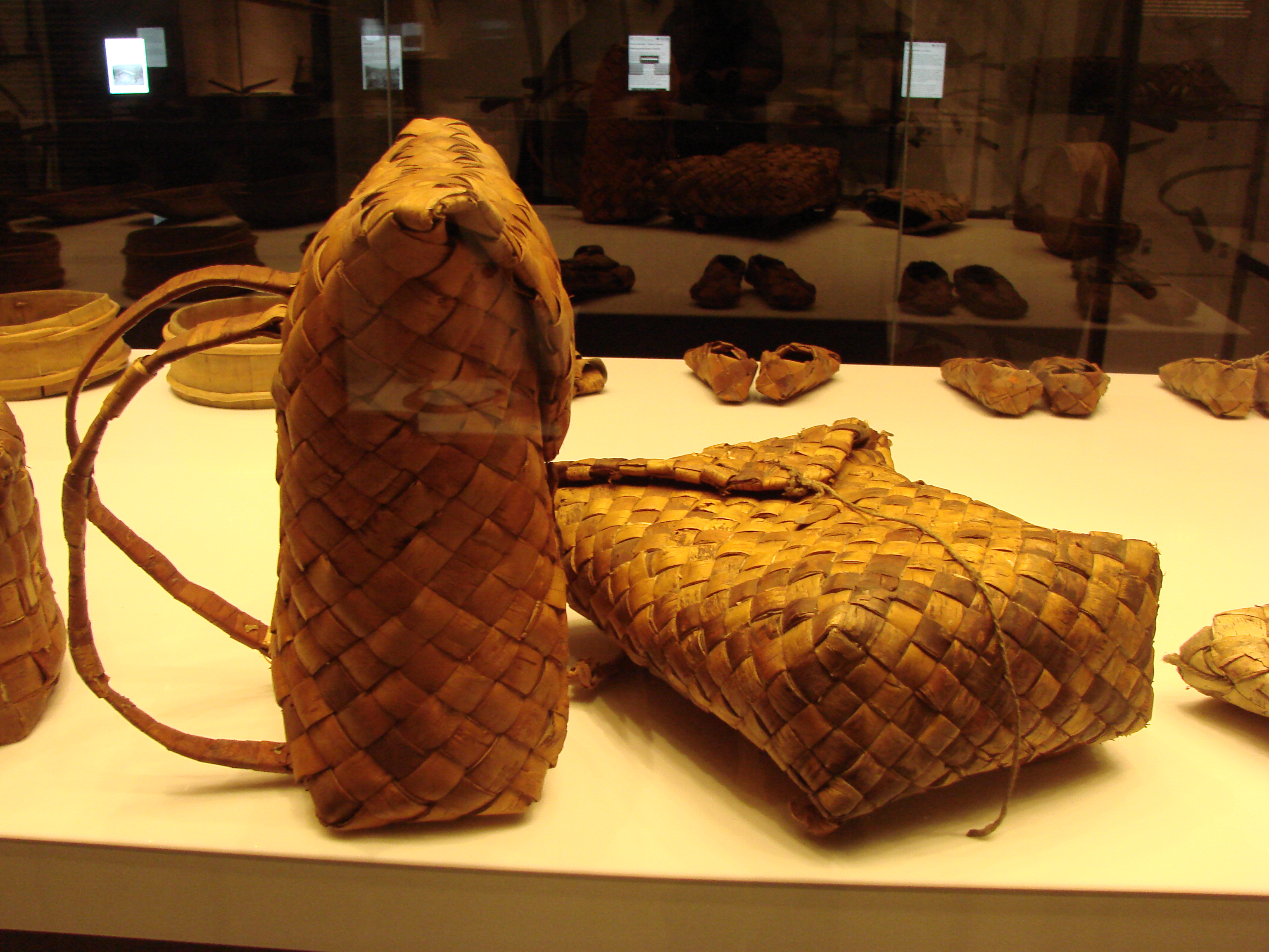 A Forrest Finn backpack.